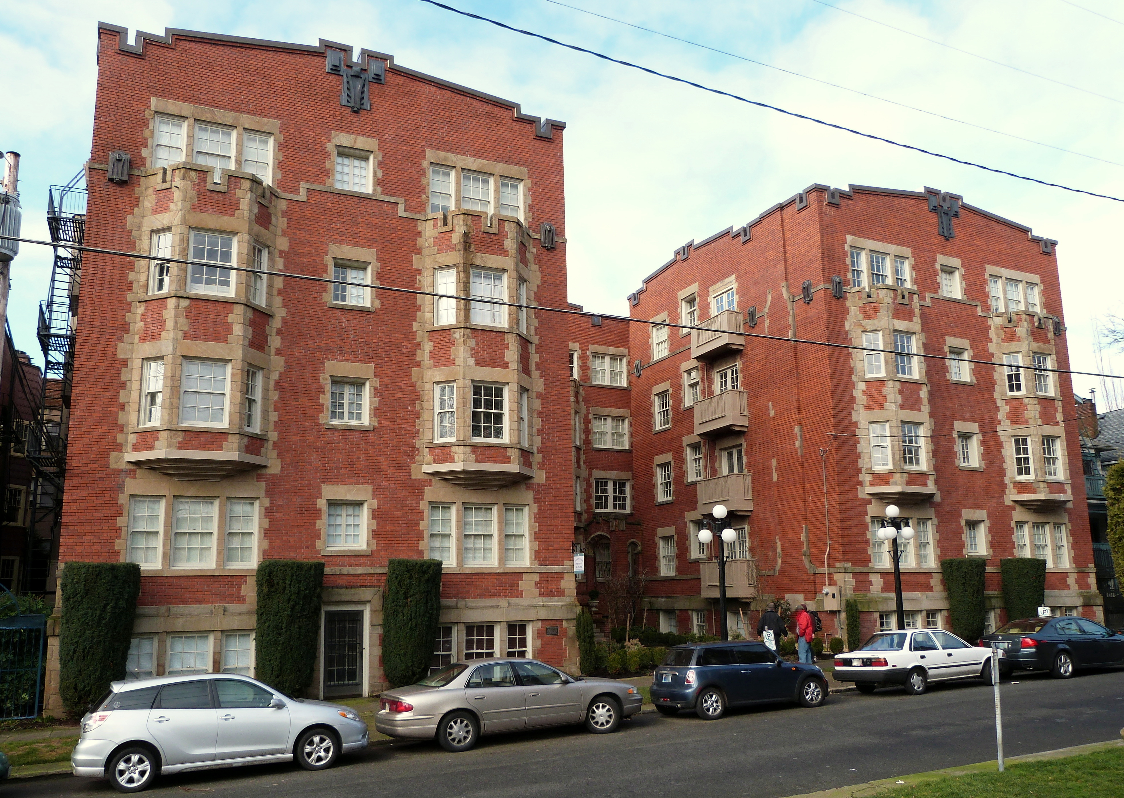 The historic Trinity Place Apartments (built 1910), located at 117 NW Trinity Place in Portland, Oregon, United States, is listed on the US National Register of Historic Places (NRHP). The building also lies in the NRHP-listed Alphabet Historic District.